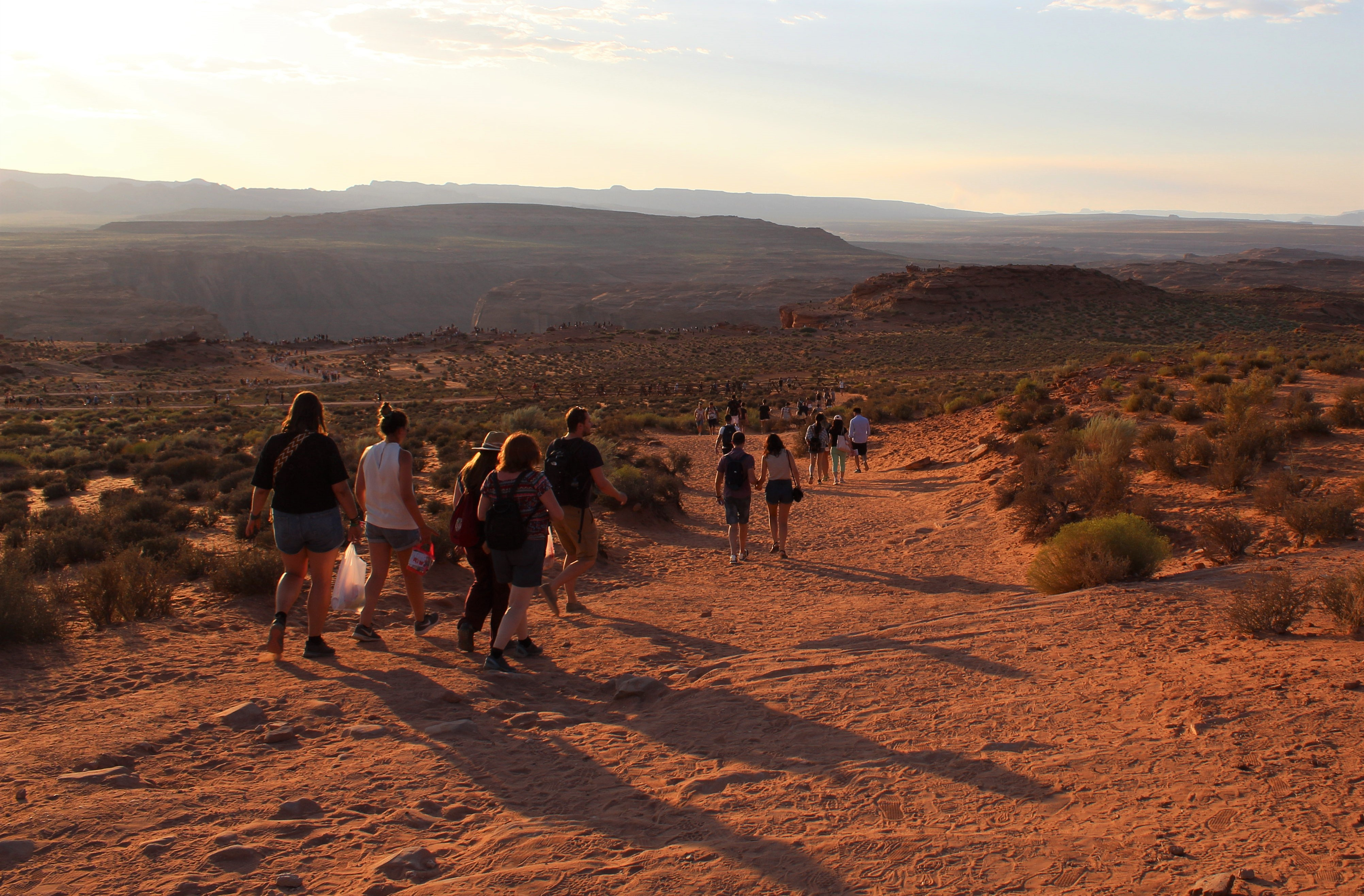 Horseshoe Bend is popular just before sunset, as large groups of tourists make the long 1/2 mile hike down to the over look point.